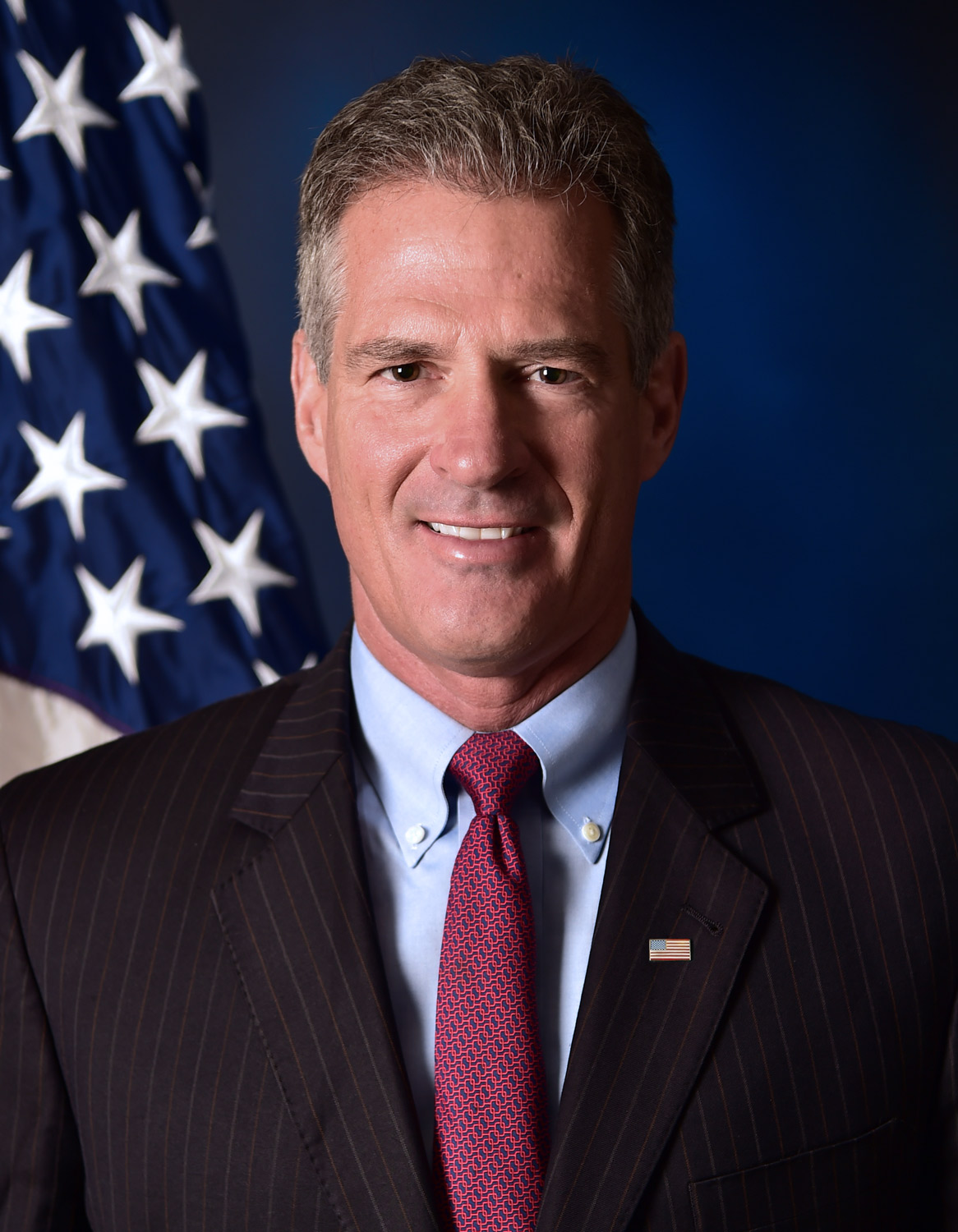 U.S. Ambassador to New Zealand and the Independent State of Samoa Scott Brown